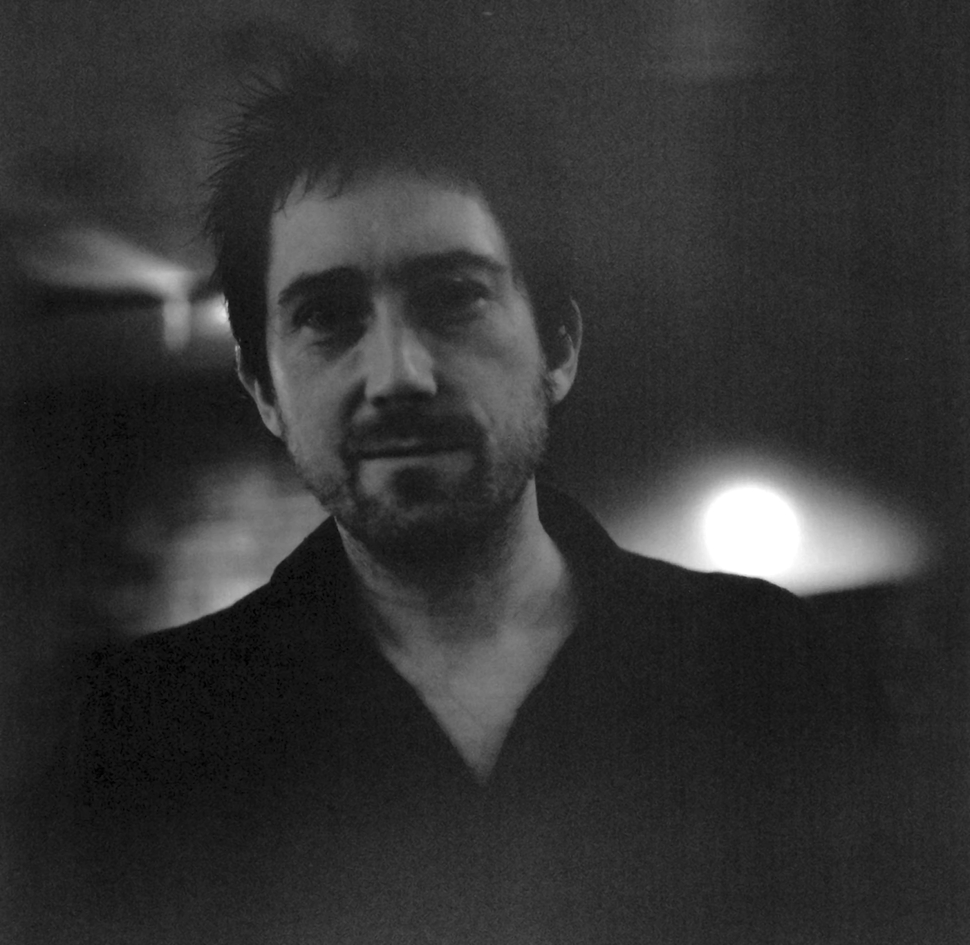 Kristan Reed at the 2012 Game Developers Conference.